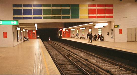 Platforms of line 2 in Hallepoort / Porte de Hal station, Brussels metro